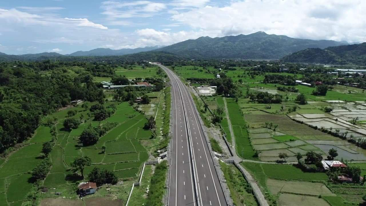 Aerial drone view of Tarlac–Pangasinan–La Union Expressway (TPLEX) - segment between Sison, Pangasinan and Rosario, La Union, northward past the Bued River bridge. Notes: - The author has expressed his permission, through the Messenger, for this file to be used freely, as donation for Wikimedia Commons. - OTRS permission through correspondence was sent on the midnight of August 14th, 2020 (Philippine Standard Time/UTC+8). Tagalog: Tanawing panghimpapawid (na drone) ng Tarlac–Pangasinan–La union Expressway (TPLEX) - sa pagitan ng Sison, Pangasinan at Rosario, La Union, pahilaga paglampas ng tulay ng Ilog Bued. Talababa: - Inihayag ng may-akda, sa pamamagitan ng Messenger, ang kaniyang pahintulot para maaring gamitin ang talaksang ito nang malaya, sa pamamagitan ng Messenger, bilang donasyon para sa Wikimedia Commons. - Ipinadala ang pahintulot na OTRS sa pamamagitan ng liham noong Agosto 14, 2020 ng hatinggabi (Pamantayang Oras ng Pilipinas/UTC+8)